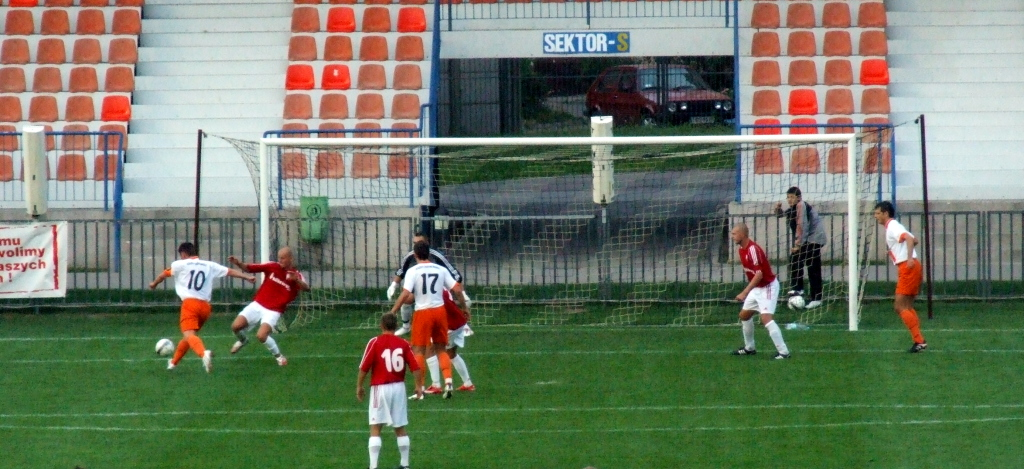 Tomasz Żelazowski (No. 10), KSZO Ostrowiec striker